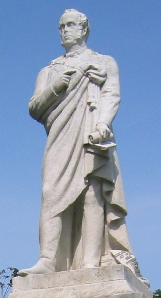 Statue of Palmerston in the Palmerston Park, Southampton, UK. Statue erected by public subscription, under mayor Frederick Perkins, en:1869. Photo taken by me 2005-06-07.